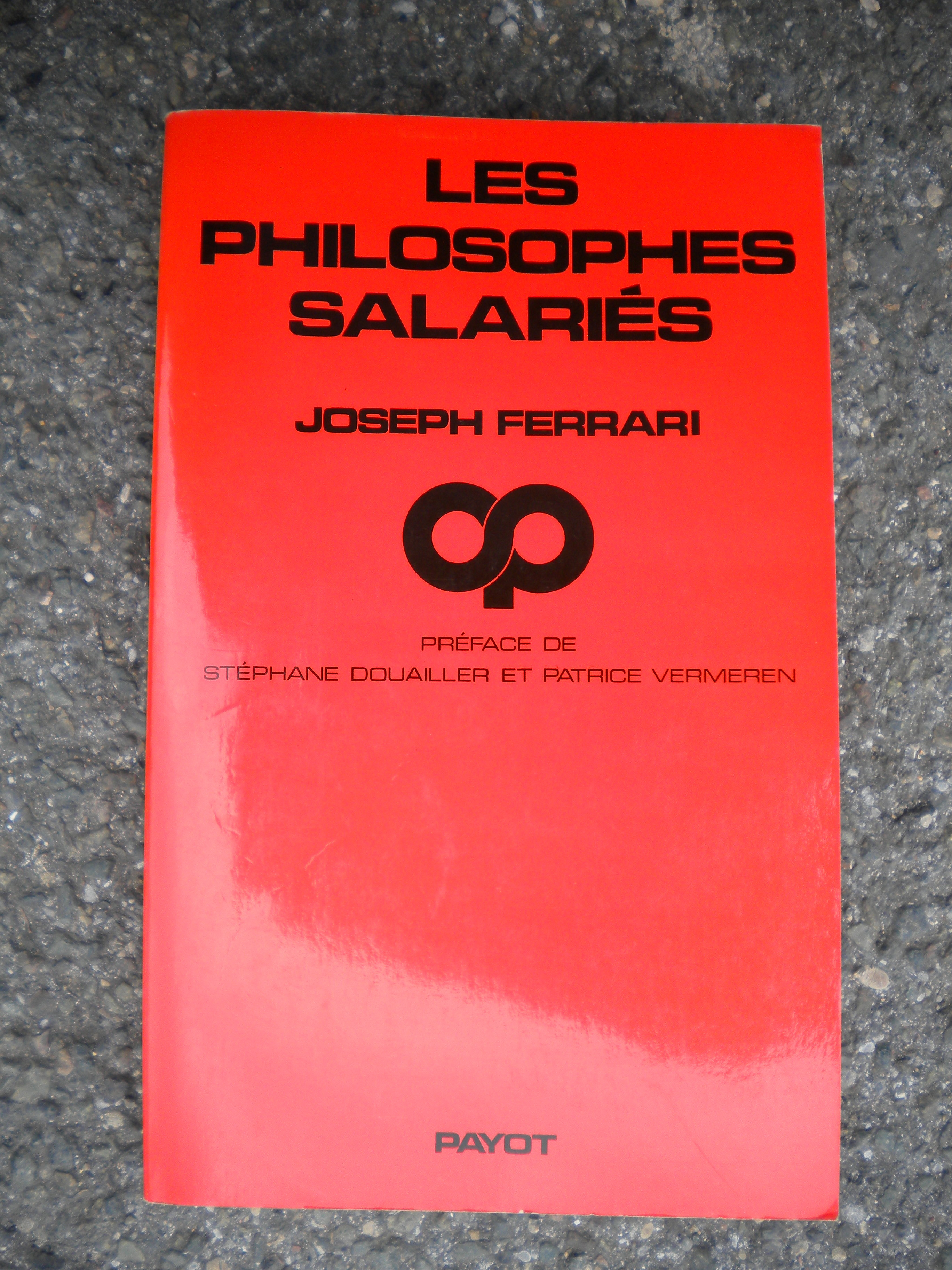 This is the front cover of Joseph (Giuseppe) Ferrari's book untitled "Les philosophes salariés", as it was edited by Miguel Abensour in 1983 in his editorial collection « Critique de la politique », with a foreword written by Stéphane Douailler and Patrice Vermeren.